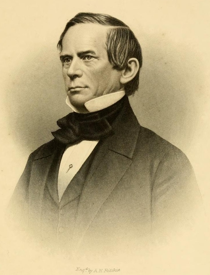 James H. Duncan, Massachusetts Congressman.